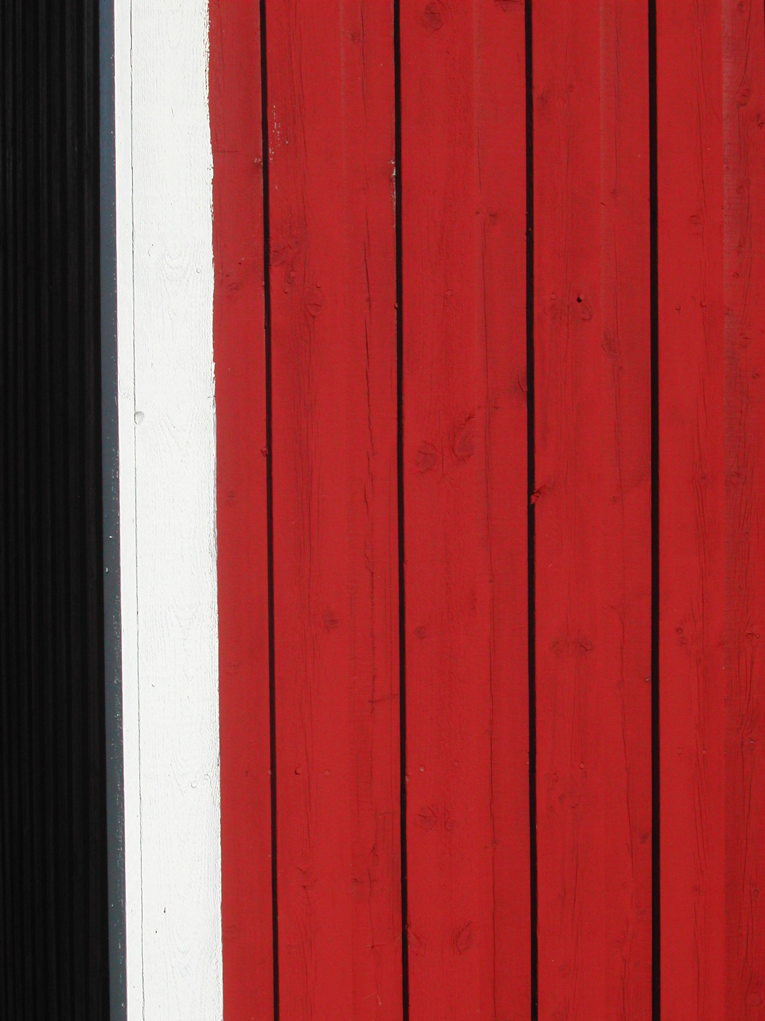 wooden wall